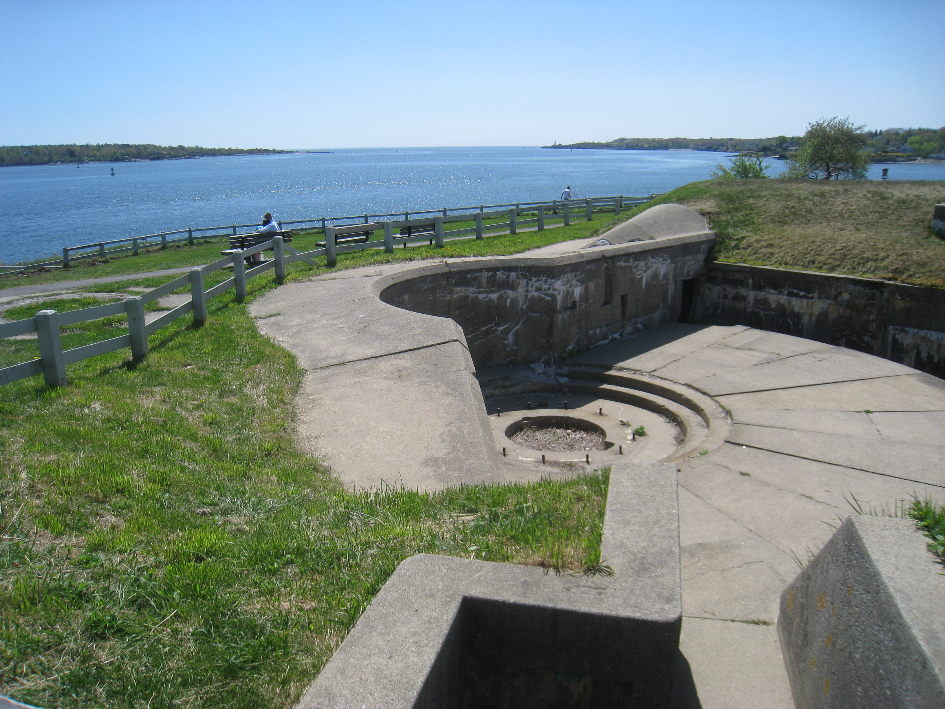 Fort Preble, now the campus of Southern Maine Community College, South Portland, Maine, USA.